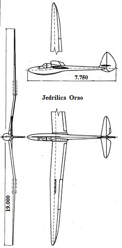 Yugoslav Glider Orao Српски (ћирилица): Jugoslovanska vazduhoplovna jedrilica Ikarus Orao